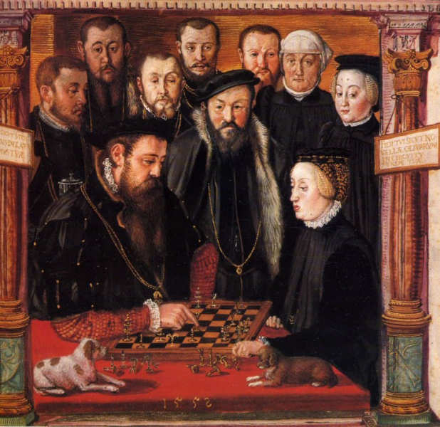 Duke Albrecht V. of Bavaria and his wife Anna of Austria playing chess. It is a detail image of the illustration on page 10 of the online book from the Jewel Book of the Duchess Anna of Bavaria (Kleinodienbuch der Herzogin Anna von Bayern).